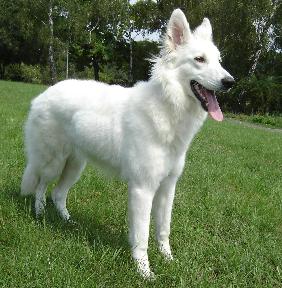 Canadian White Shepherd, 9 months